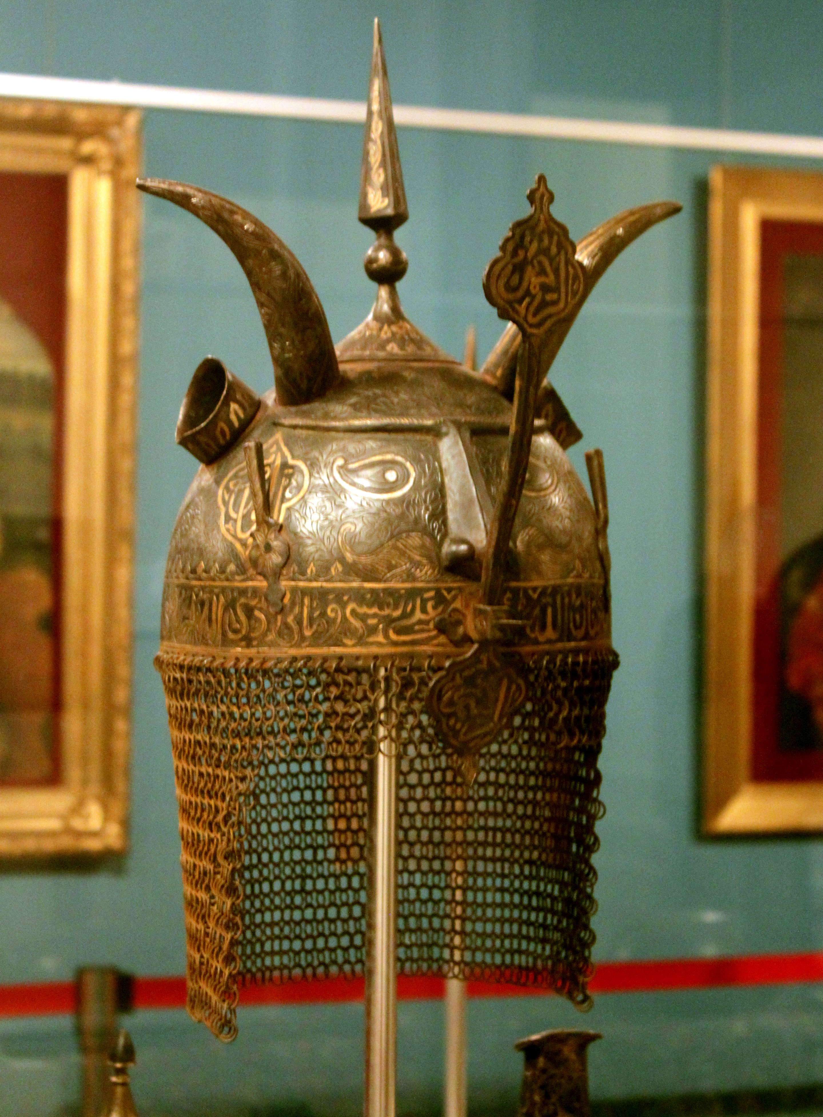 Medieval azerbaijani helmet (Aq Qoyunlu)